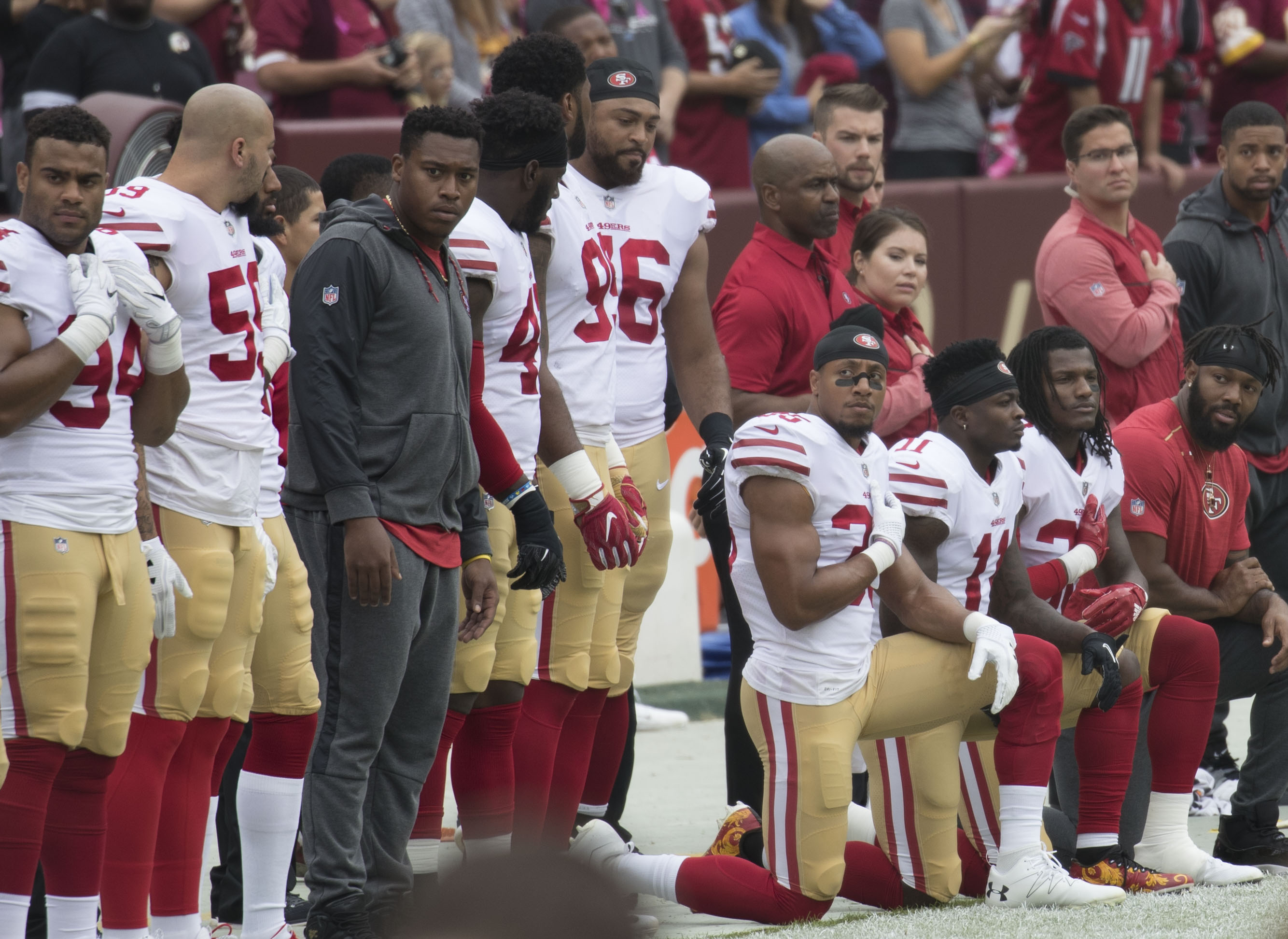 Some members of the San Francisco 49ers kneel during the National Anthem before a game against the Washington Redskins at FedEx Field on October 15, 2017 in Landover, Maryland.